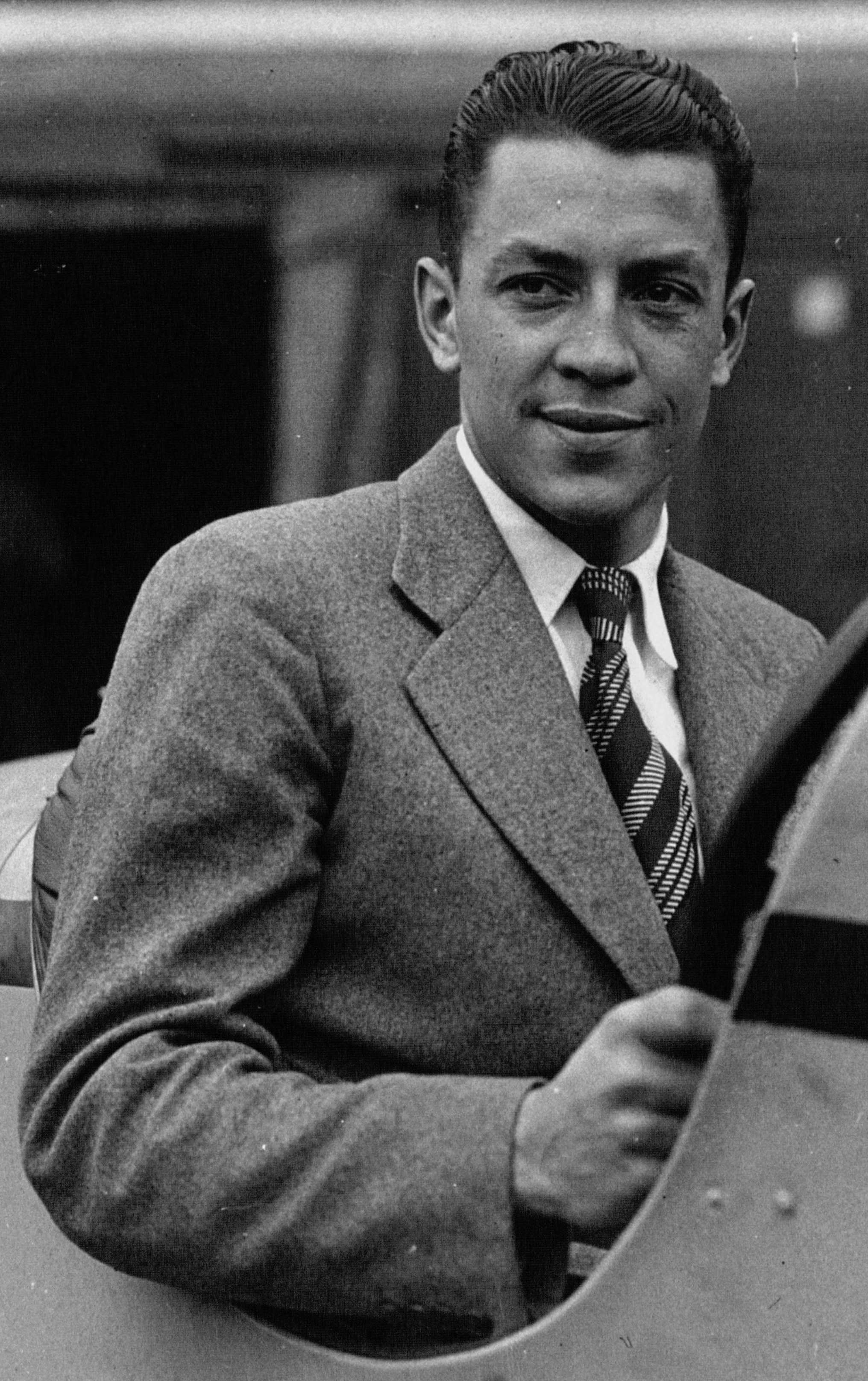 Jean-Pierre Wimille at the 1933 French Grand Prix with Alfa Romeo Monza 2.3